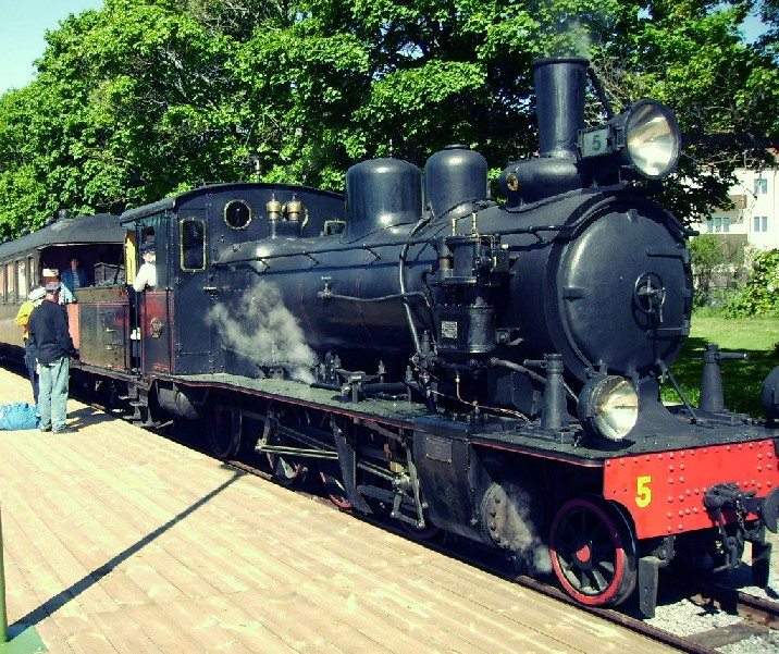 Steam engine BLJ 5 Thor ready to depart from Uppsala Östra station at Upsala-Lenna Railway in Sweden